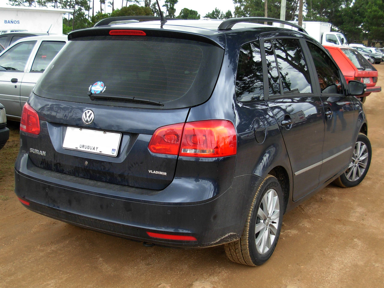 Rear view of a 2010 Volkswagen Suran, pictured in El Pinar, Uruguay.